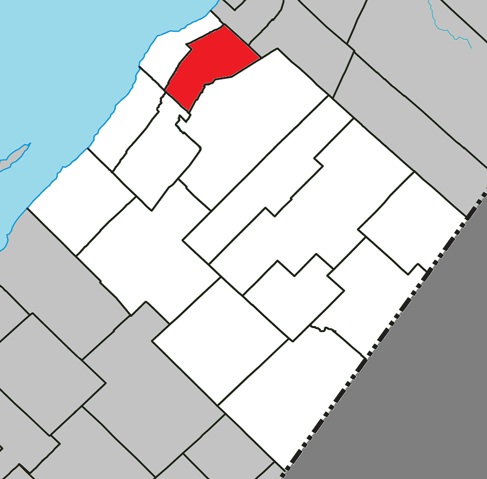 Location of Sainte-Louise, Quebec within L'Islet Regional County Municipality.